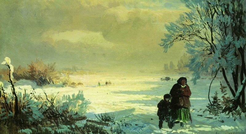 Winter (painting by Fyodor Vasilyev, 1871)